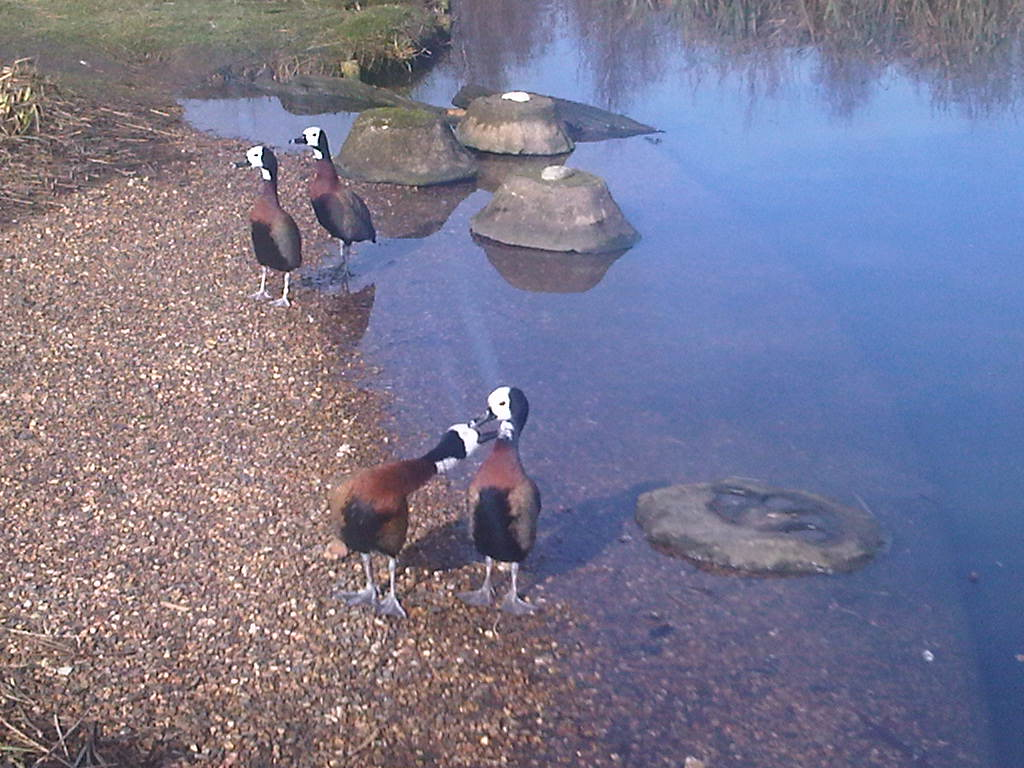 White-faced Whistling Ducks (Dendrocygna viduata) in WWT London Wetland Centre, England.